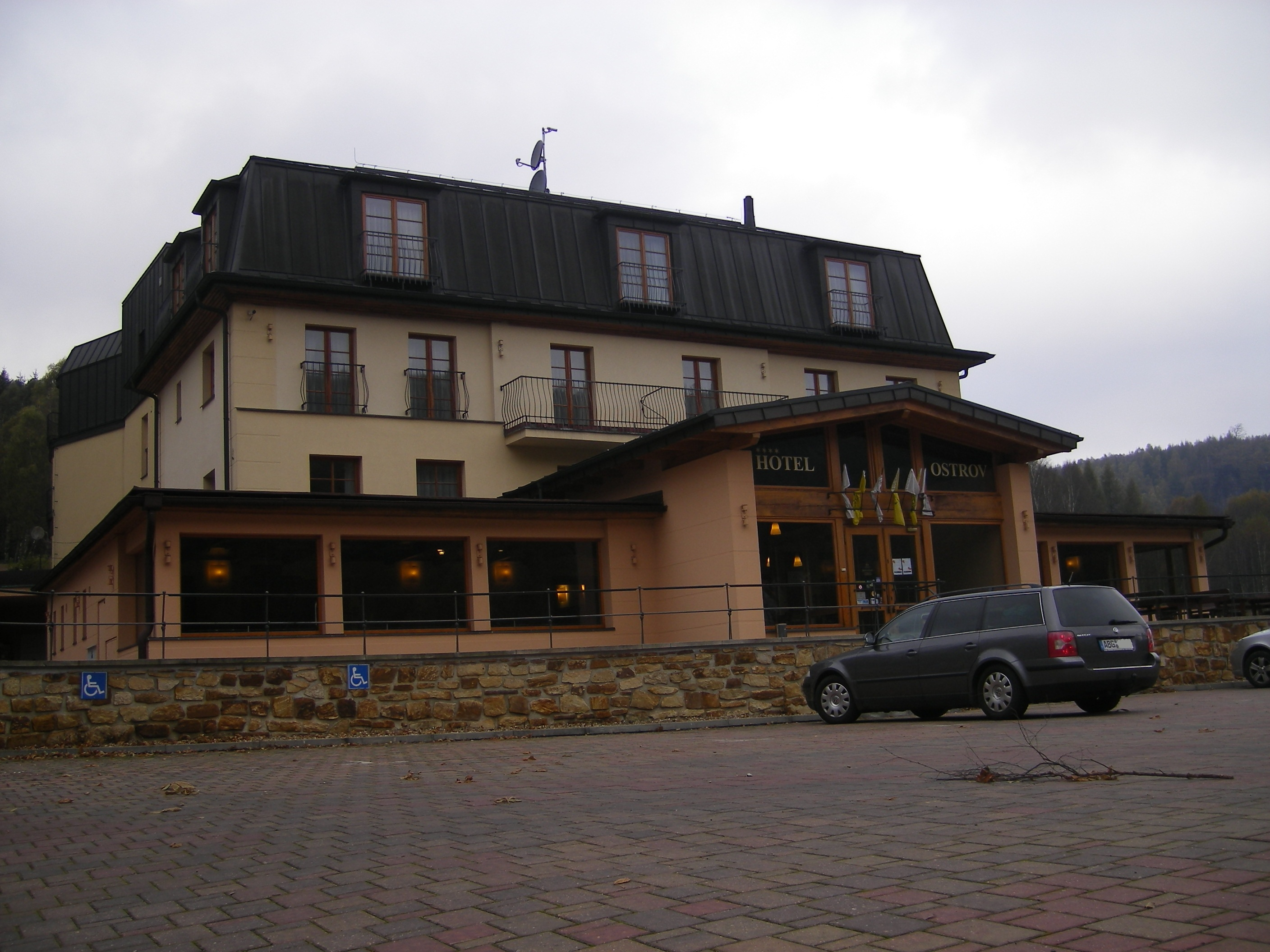 Hotel Ostrov in Ostrov u Tisé near Ústí nad Labem/Czech Republic